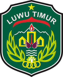 Logo of Luwu Timur Regency